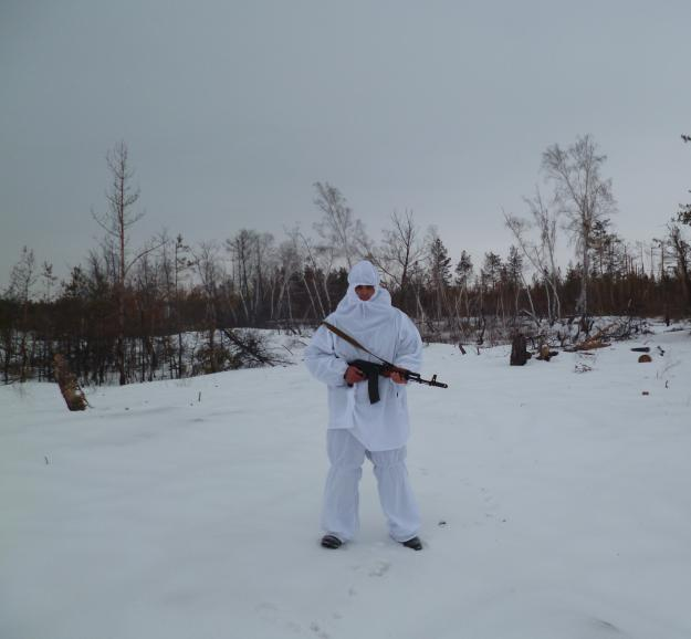 winter ghillie suit